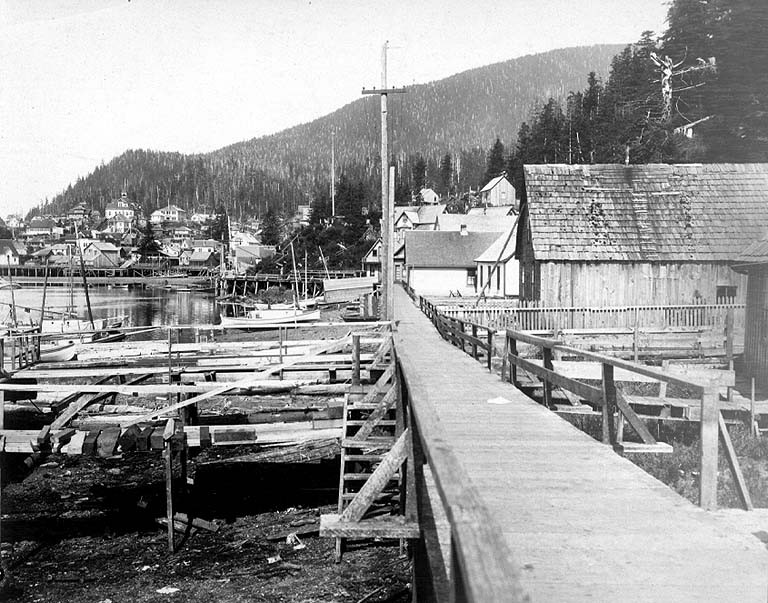 From John Cobb field notebook: Ketchikan from the creek. Sept. 19, 1908. Ketchikan from Ketchikan Creek, 1908 Subjects (LCTGM): Piers & wharves--Alaska--Ketchikan Subjects (LCSH): Ketchikan (Alaska); Ketchikan (Alaska)--Buildings, structures, etc